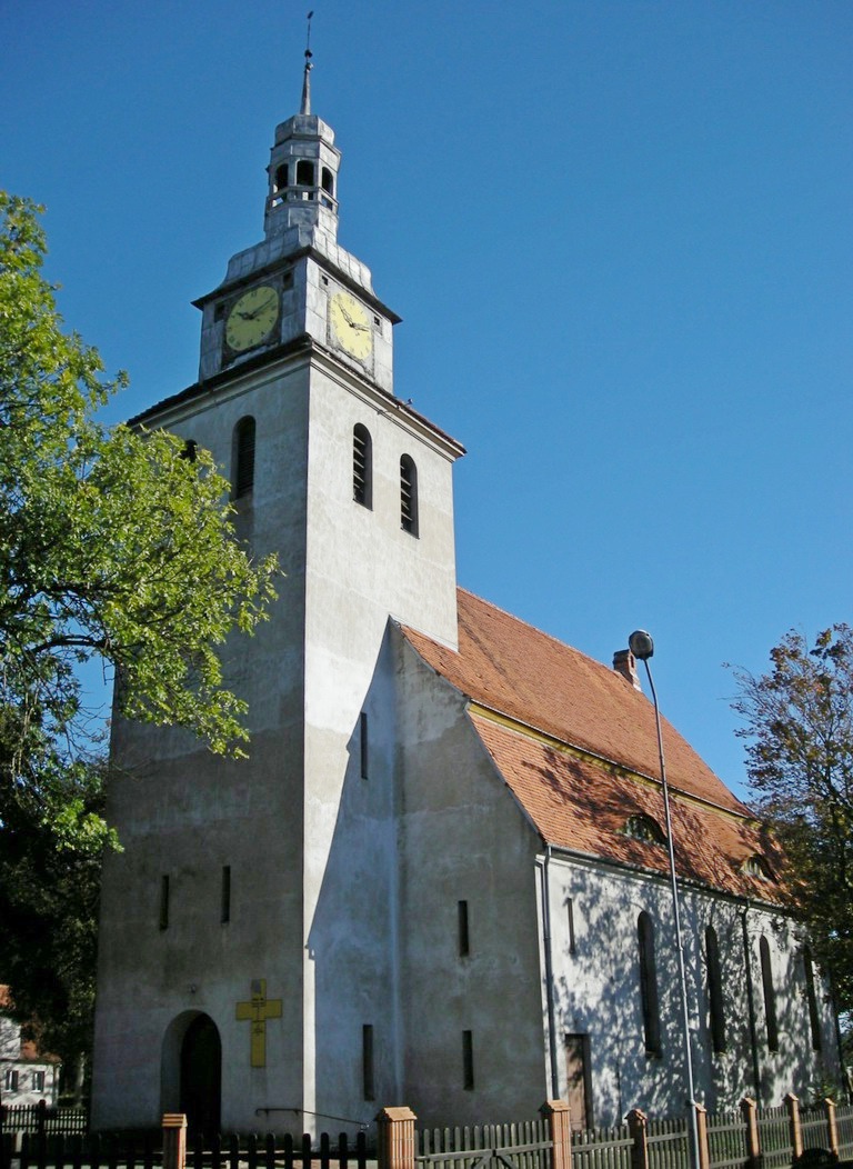 The church in Łobżenica, Poland.